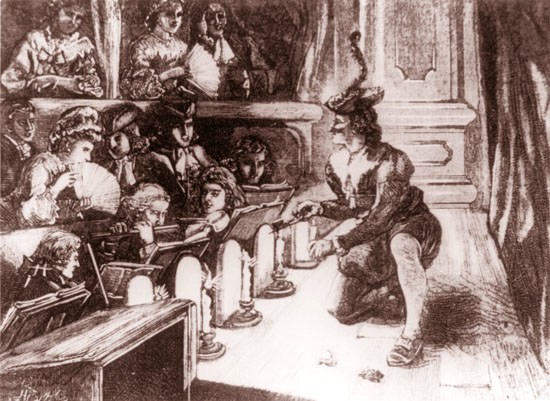 snuffer man at the stage footlights, end of 18th century